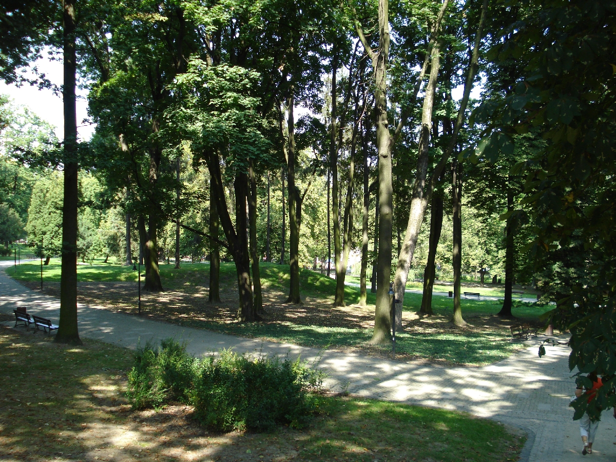 Third May Park in Częstochowa